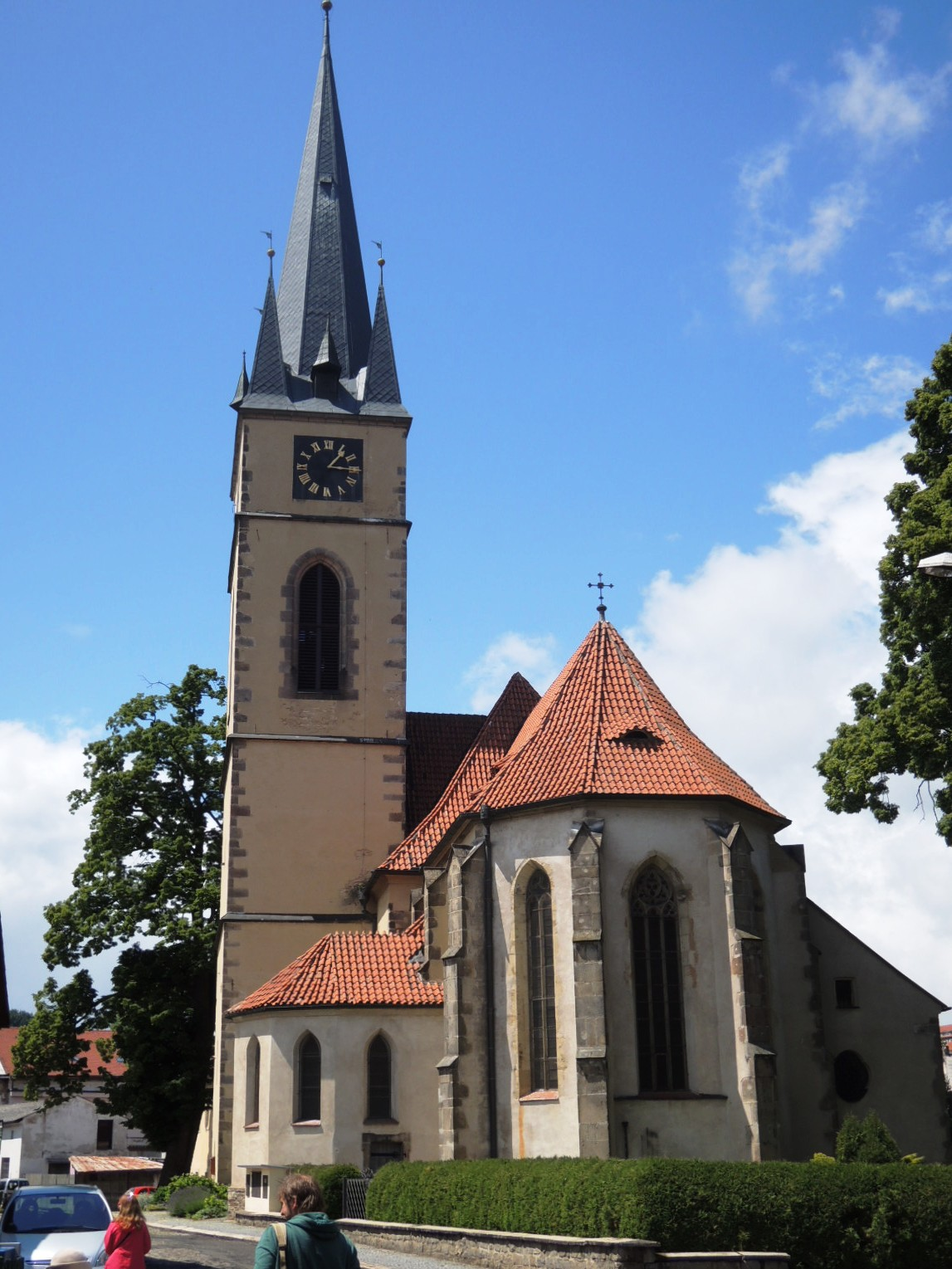 Ledeč nad Sázavou, St. Peter and Paul from East